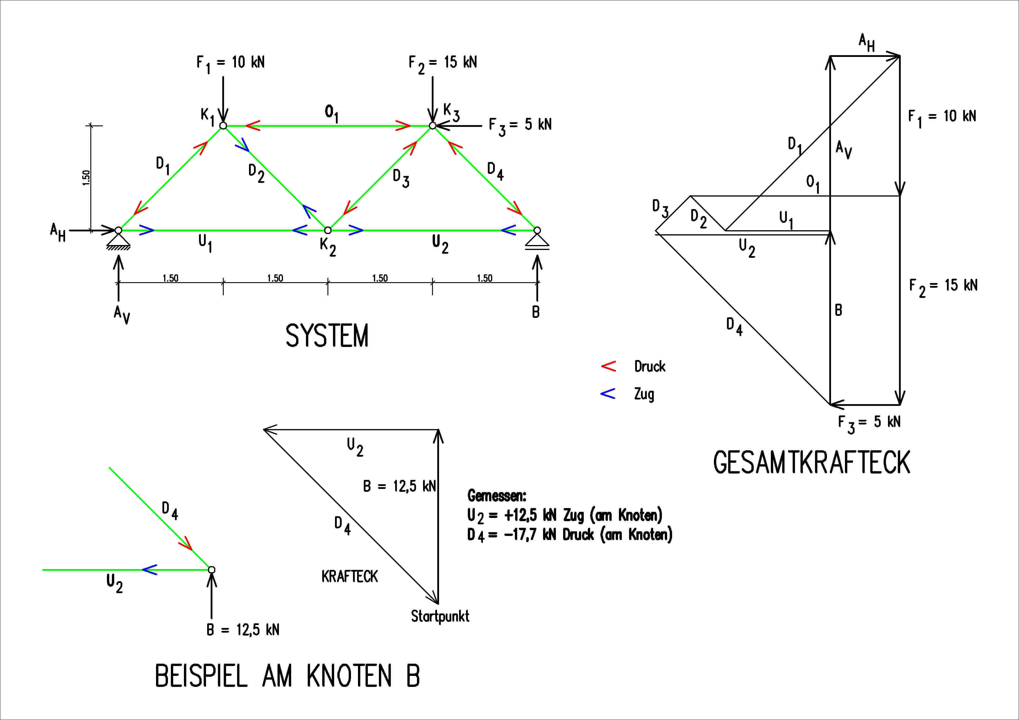 Example of a truss and creation of its corresponding Cremona plan